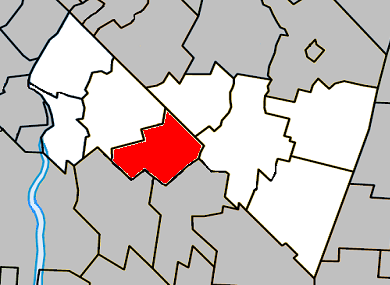 Location of Sainte-Angèle-de-Monnoir, Quebec within Rouville Regional County Municipality.